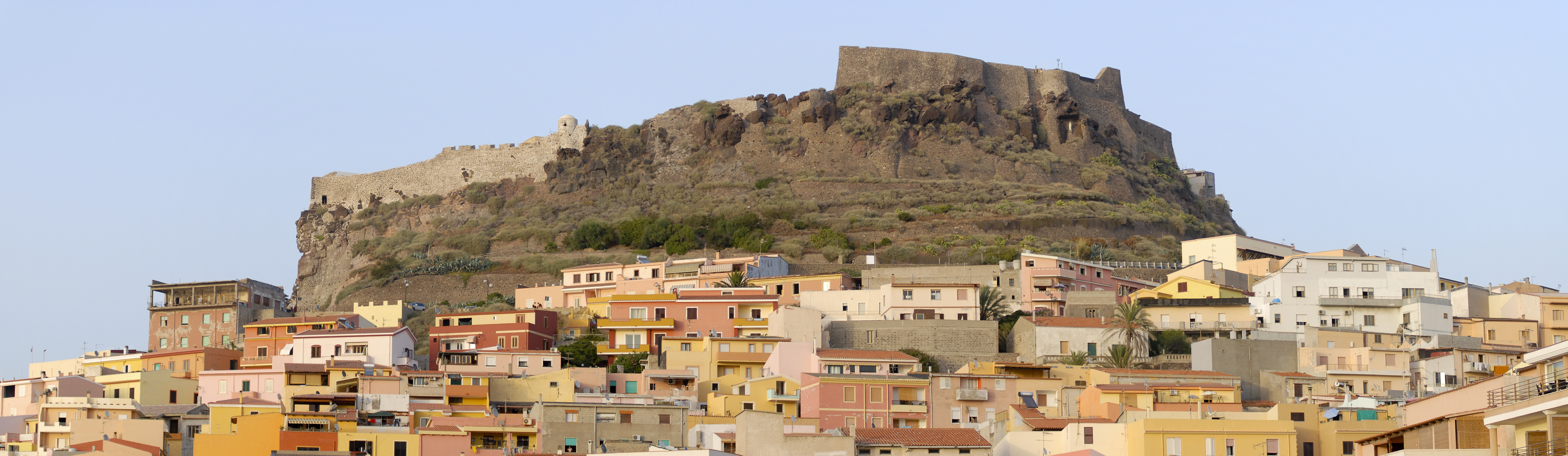 Castelsardo, view of the castle